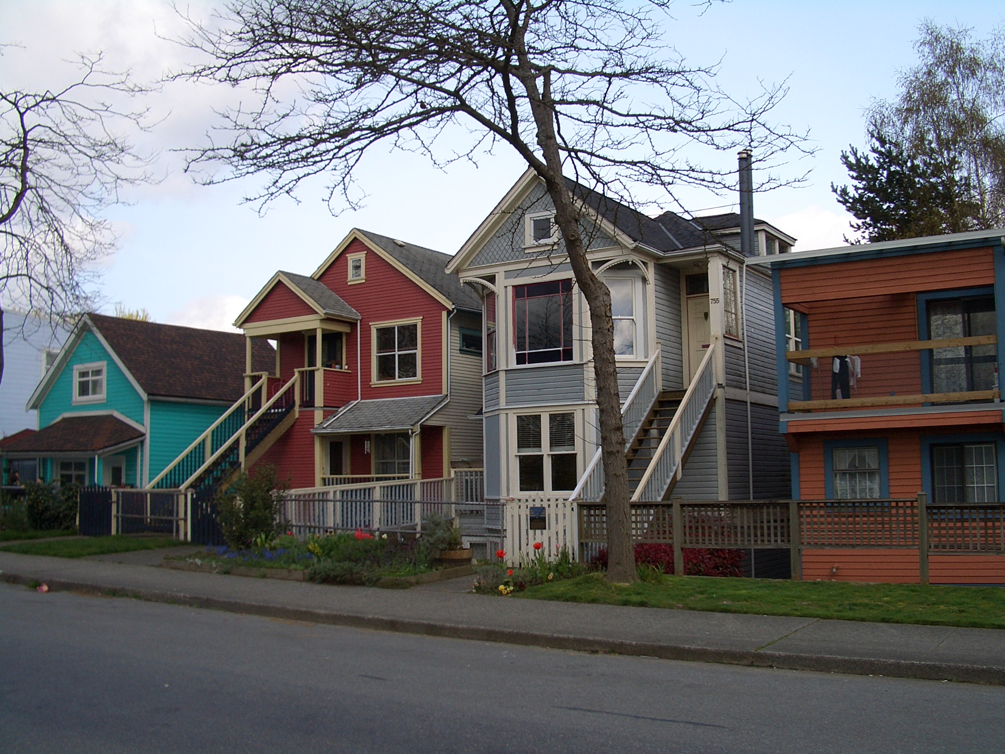 Houses in Strathcona, Vancouver